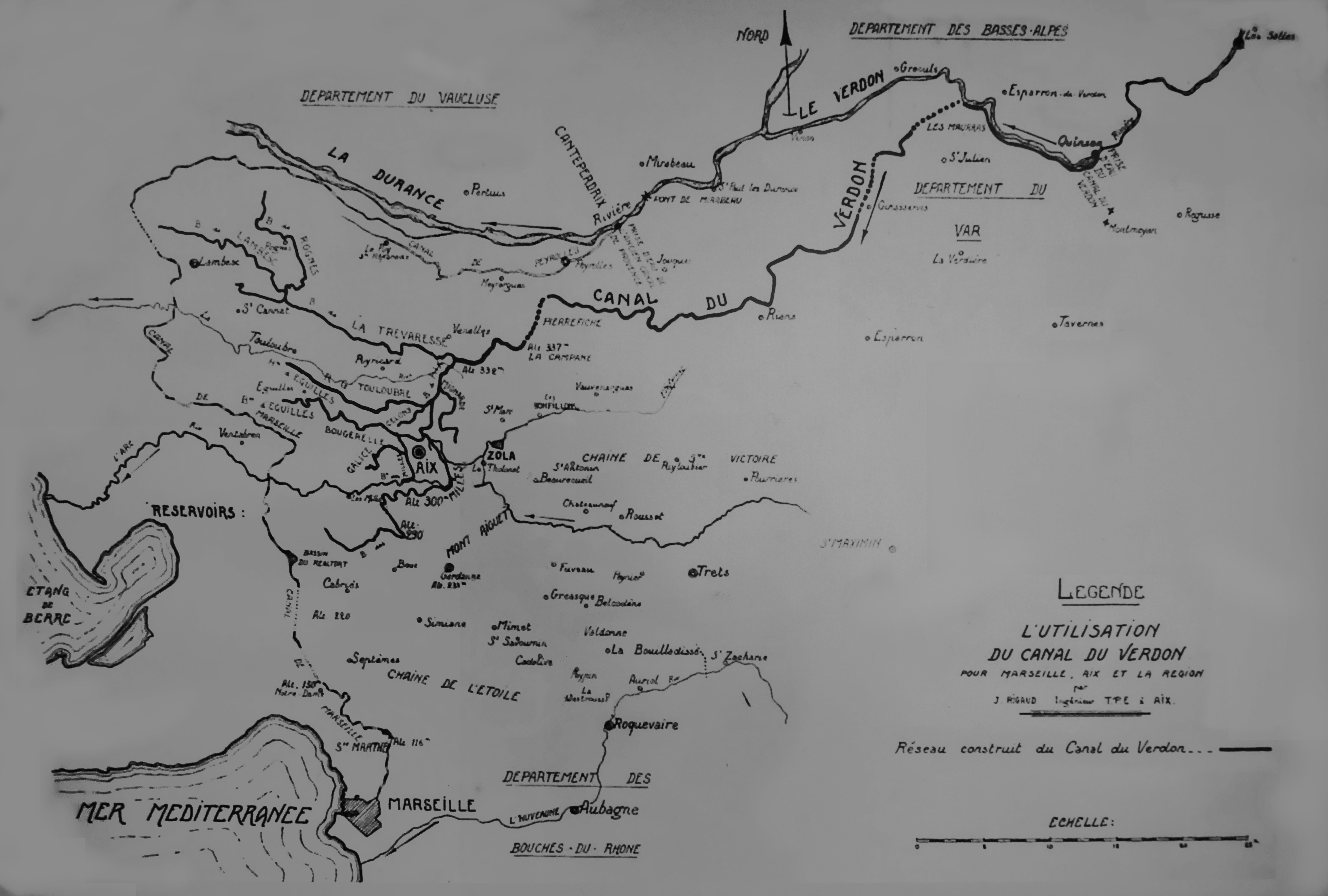 Map of the routing of the canal du Verdon, with some annex works (canal de Marseille, canal de Peyrolles, etc.). Photo of an explanatory panel on site, near the hiking trail of the Verdon Lower Gorges.